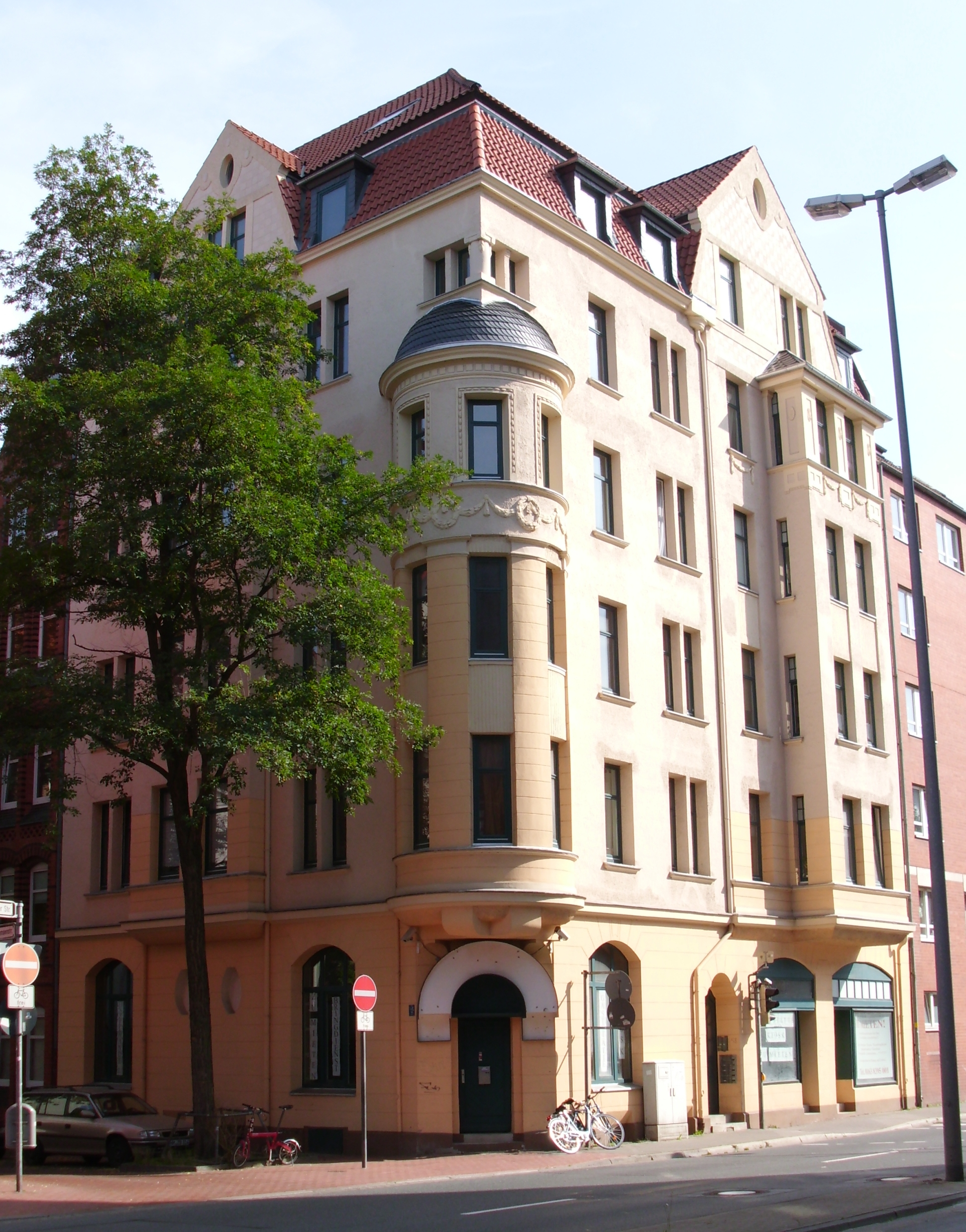 Apartement house at Göttinger Straße 58/corner Behnsenstraße, 30449 Hannover.